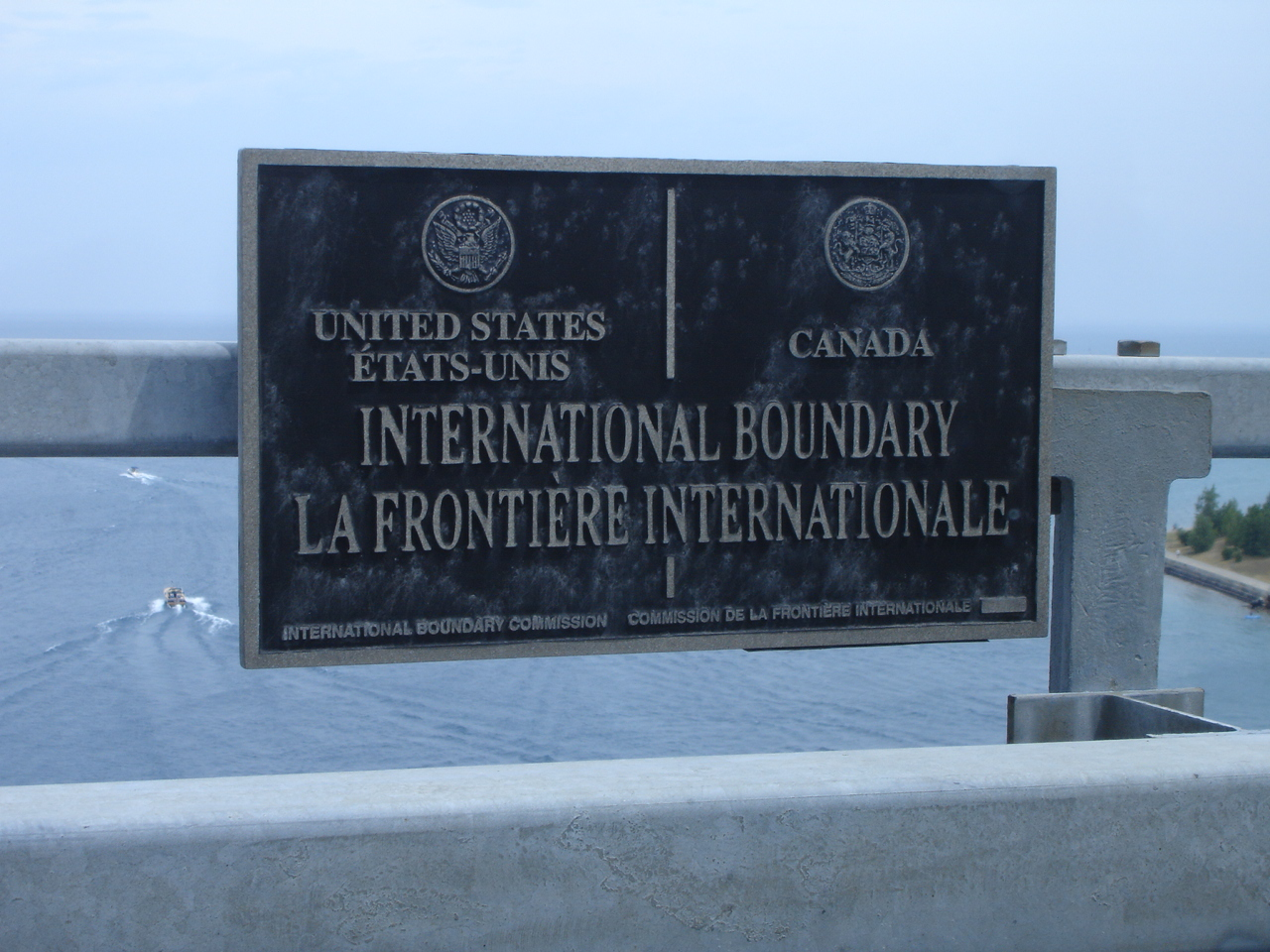 Border sign on the Blue Water Bridge